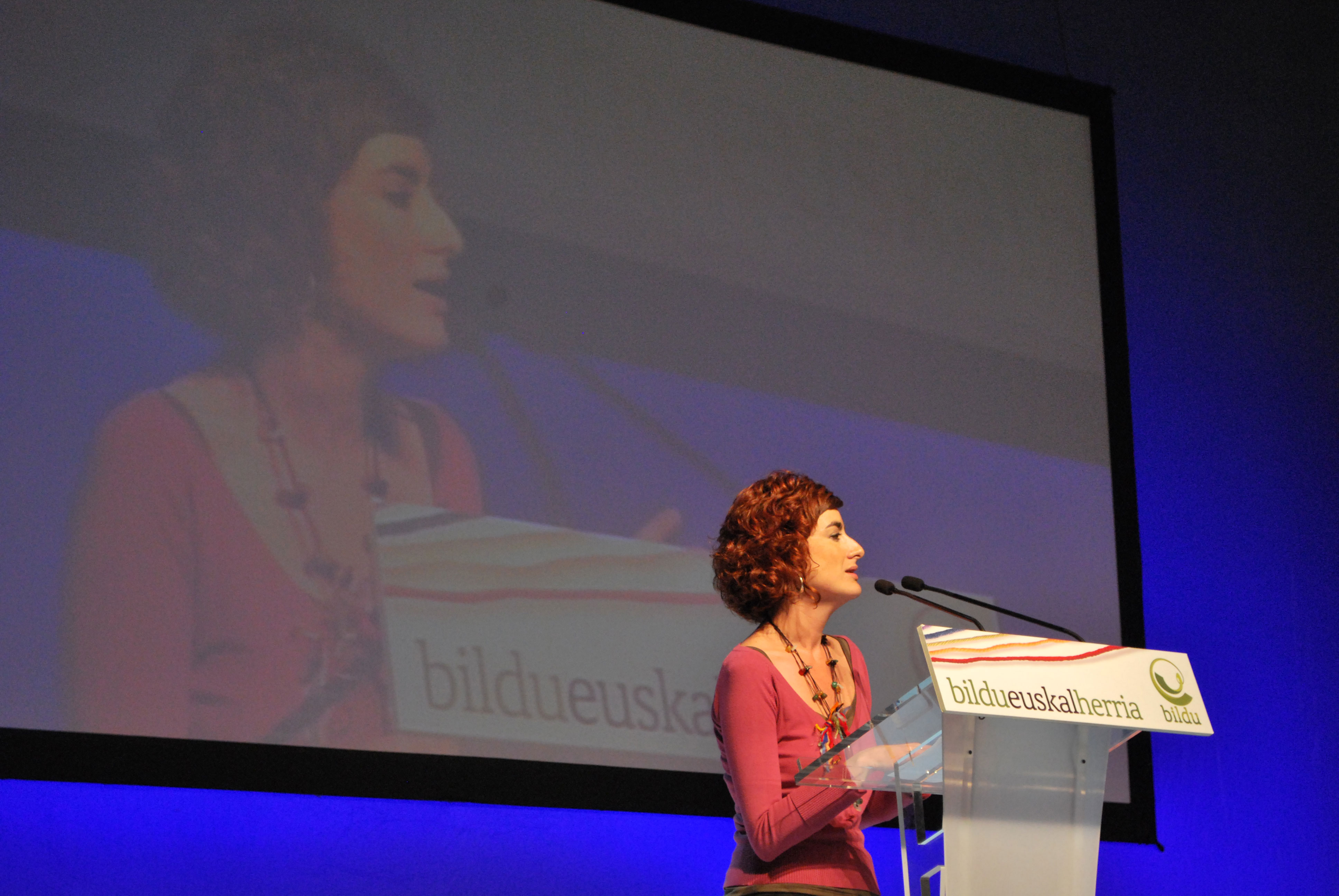 Bakartxo Ruiz, candidate for the Navarre Parliament in a meeting in Anaitasuna.